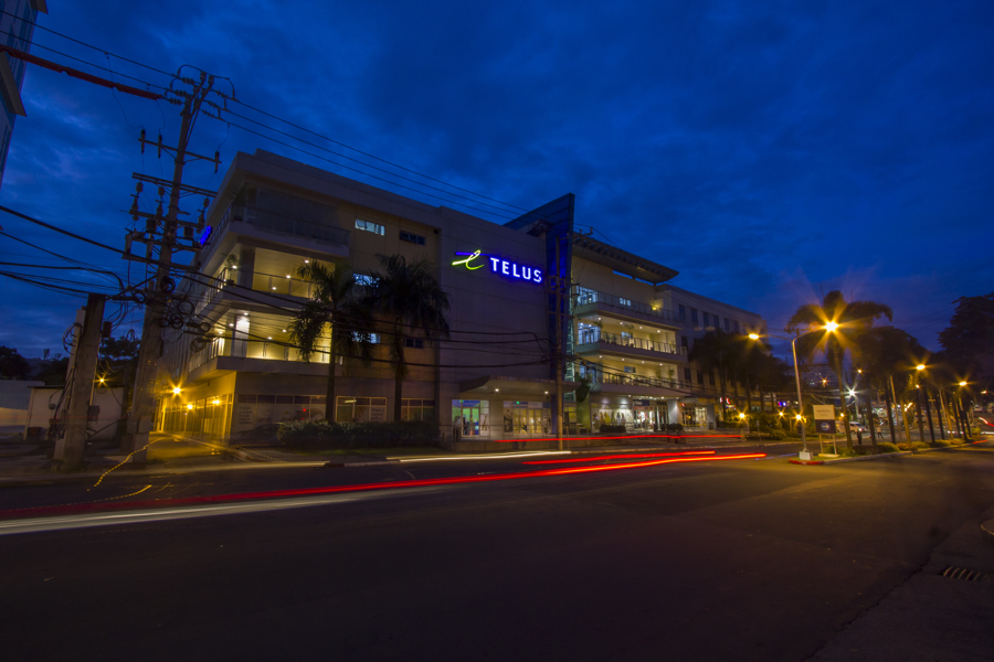 TELUS House Araneta Center in Manila, Philippines